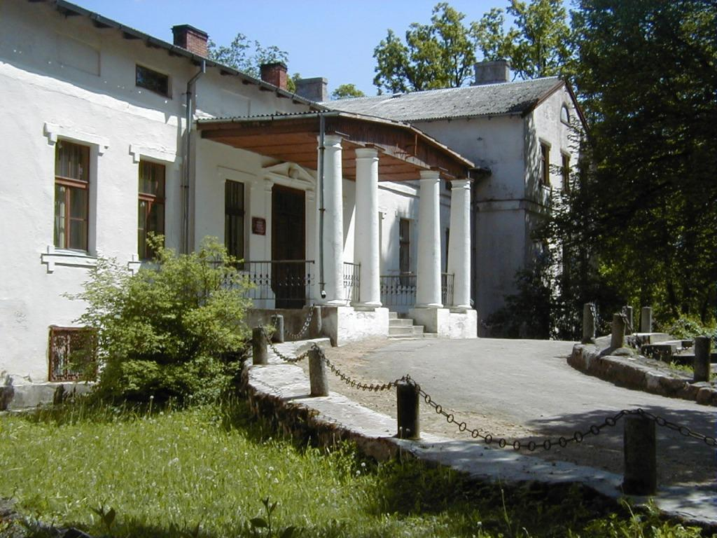 Vestiena Manor